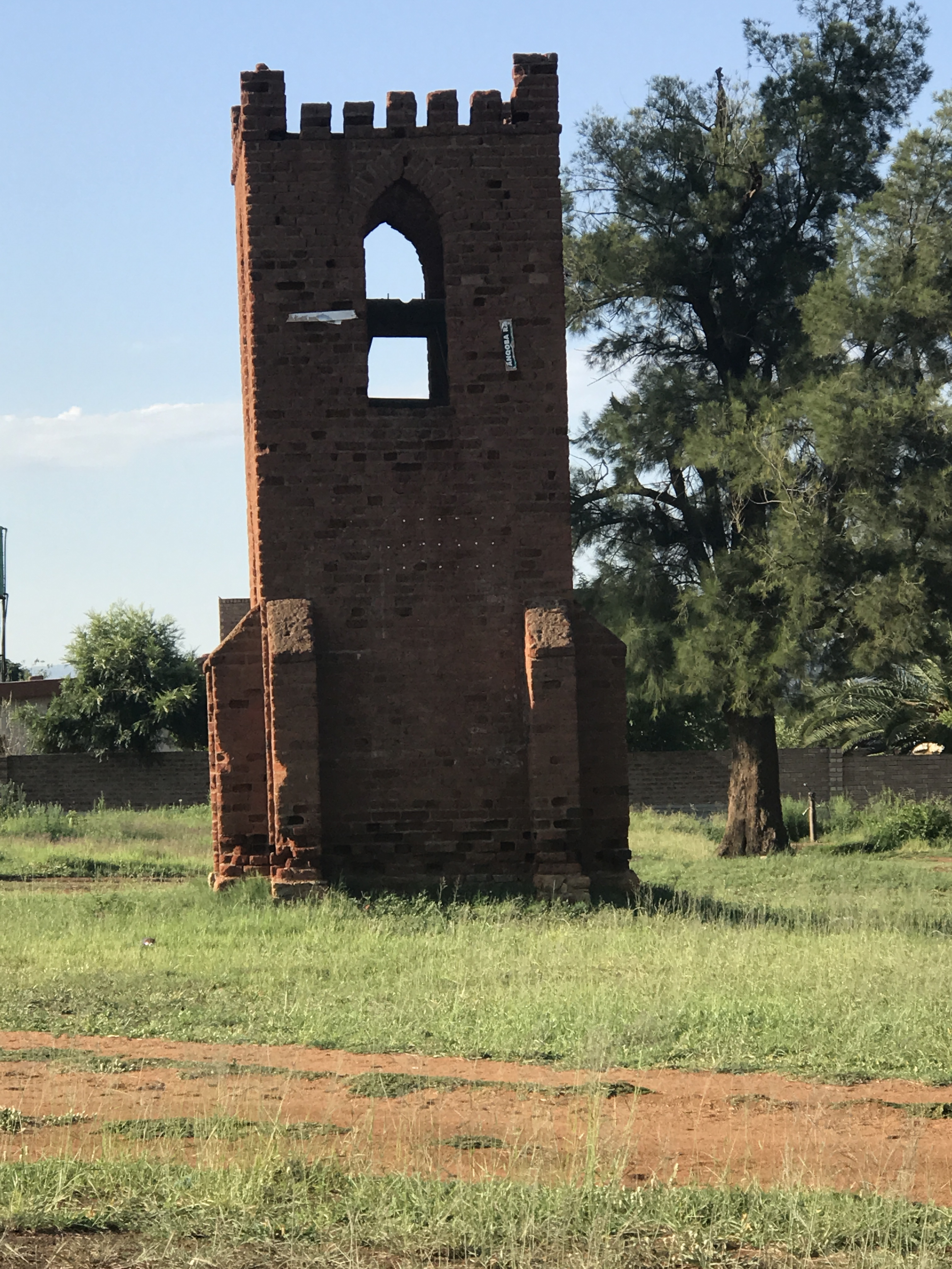 Bell Tower in Bethanie, NorthWest Province, South Africa. This was built in the late 1800s by the community of Bakwena Ba Mogopa as part of the missionary. This is an image from South Africa